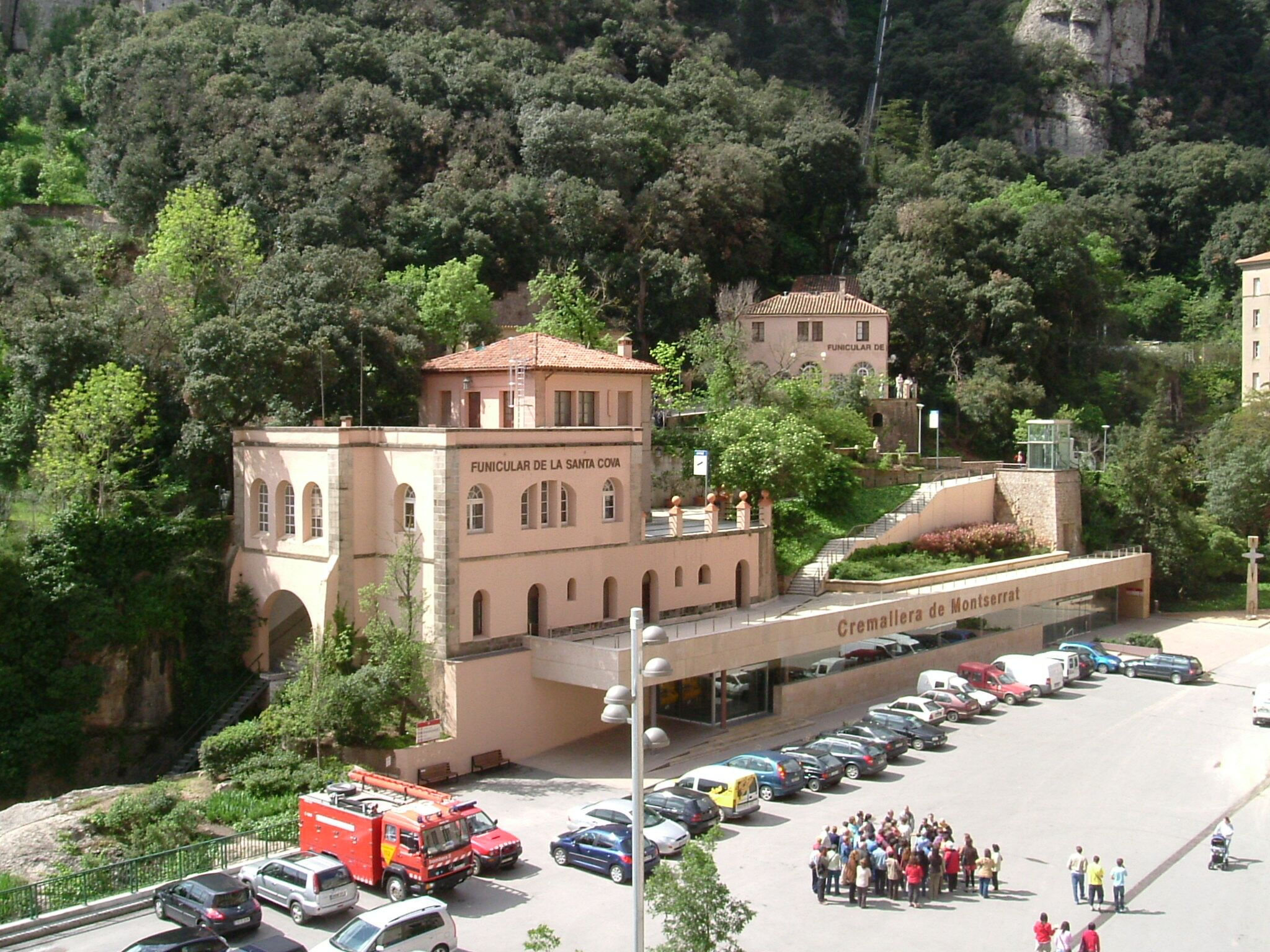 Common Station of two Funicular lines and a Rack Railway, Montserrat, Spain